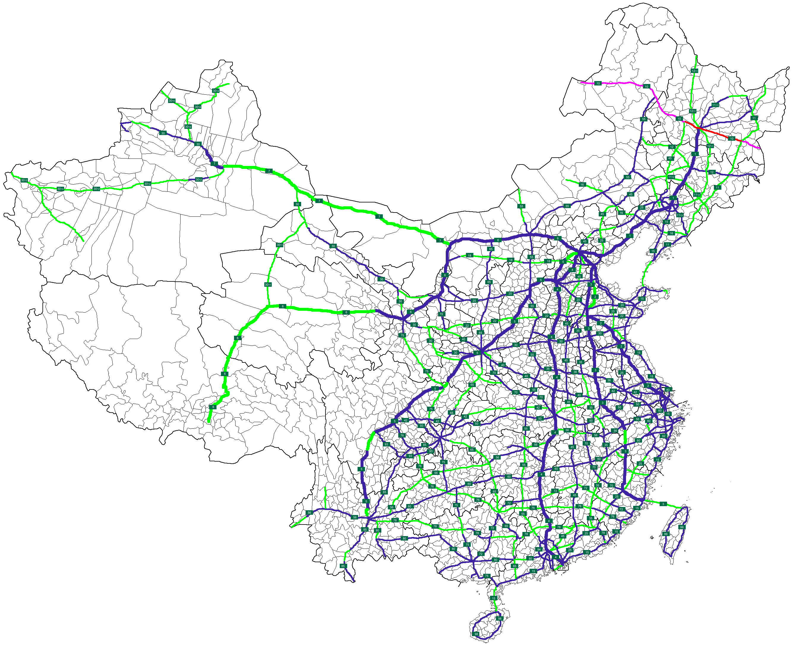 Source file(Map of NTHS Expressways of China.png) was uploaded ASDFGH at en.wikipedia. Later version(s) were uploaded by Nima Farid at en.wikipedia. Modification for NTHS Expressway G10 is my own work.